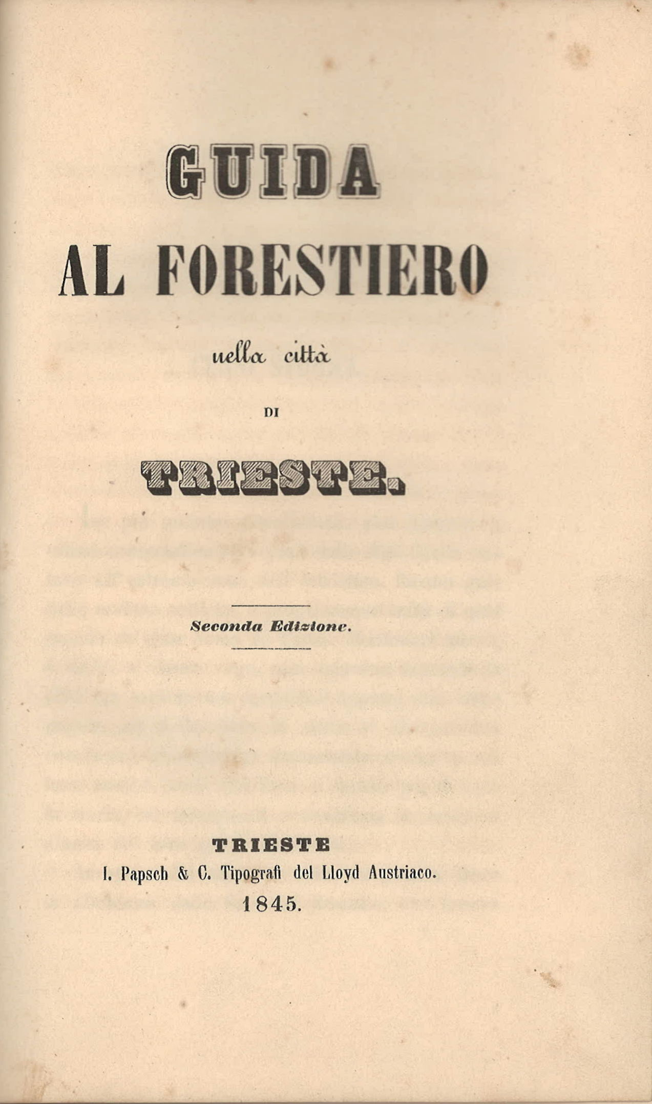 P. Kandler: Guida al forestiero nella citta di Trieste, Trieste 1845, title page